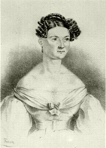 Terez Karacs (1808–1892), was a Hungarian writer, educator, memoirist, and women's rights activist.